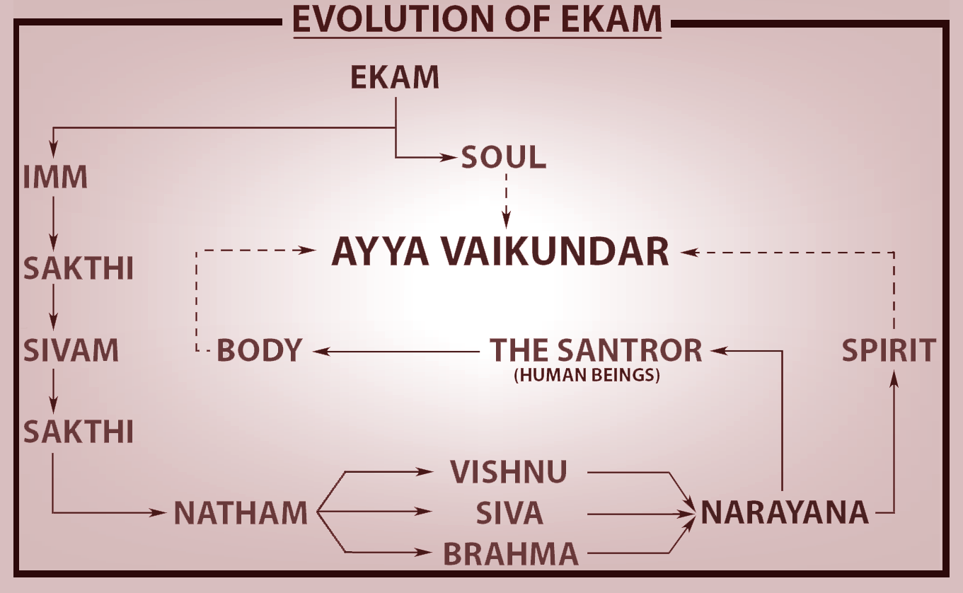 I created this image.